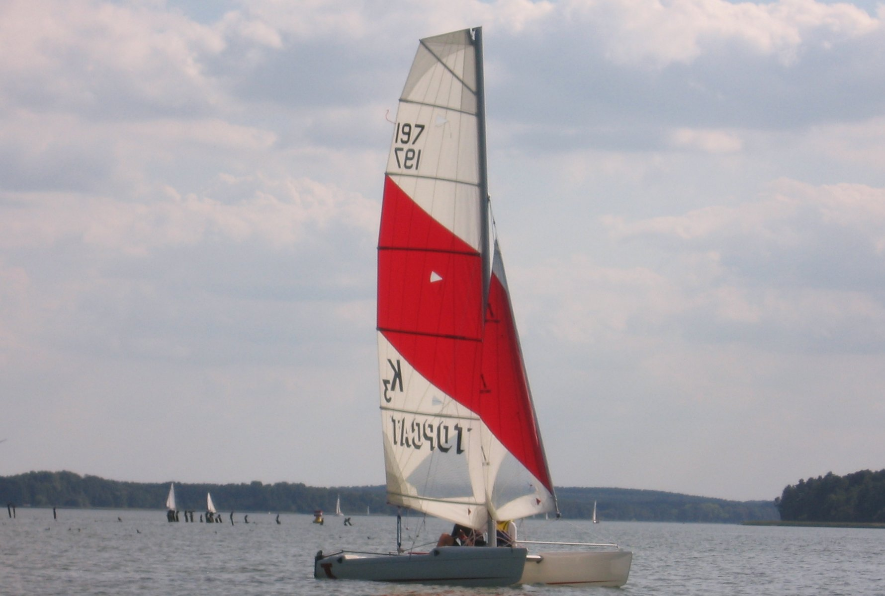 Topcat K3 on Scharmuetzelsee (near Berlin, Germany)